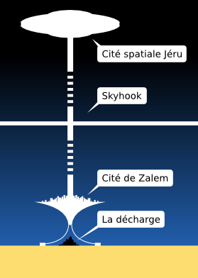 Diagram of Jeru and Zalem in Gunnm univers